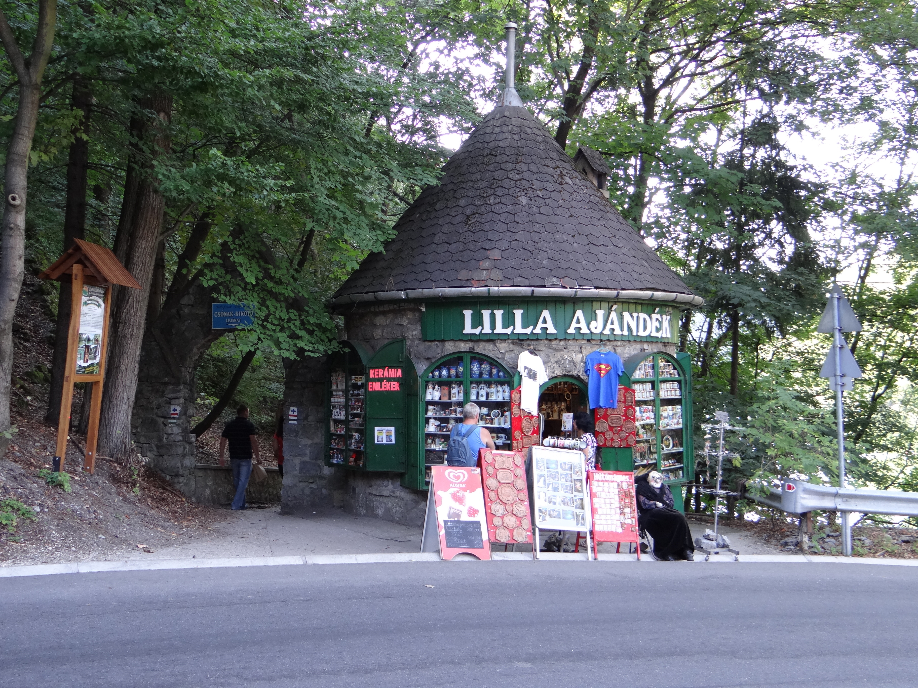 Gift shopp in Lillafüred, Hungary